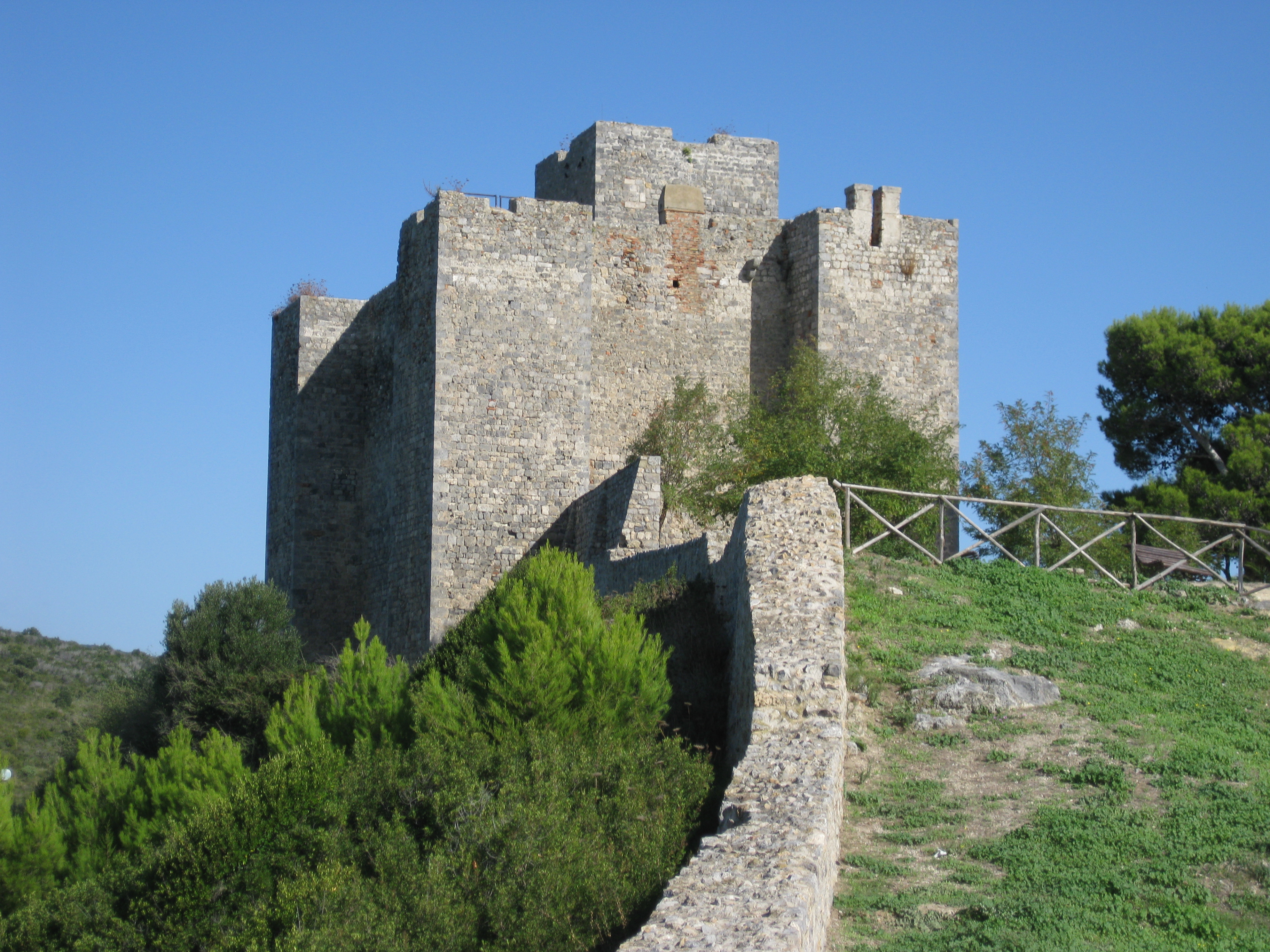 An old construction at Talamone ITALY